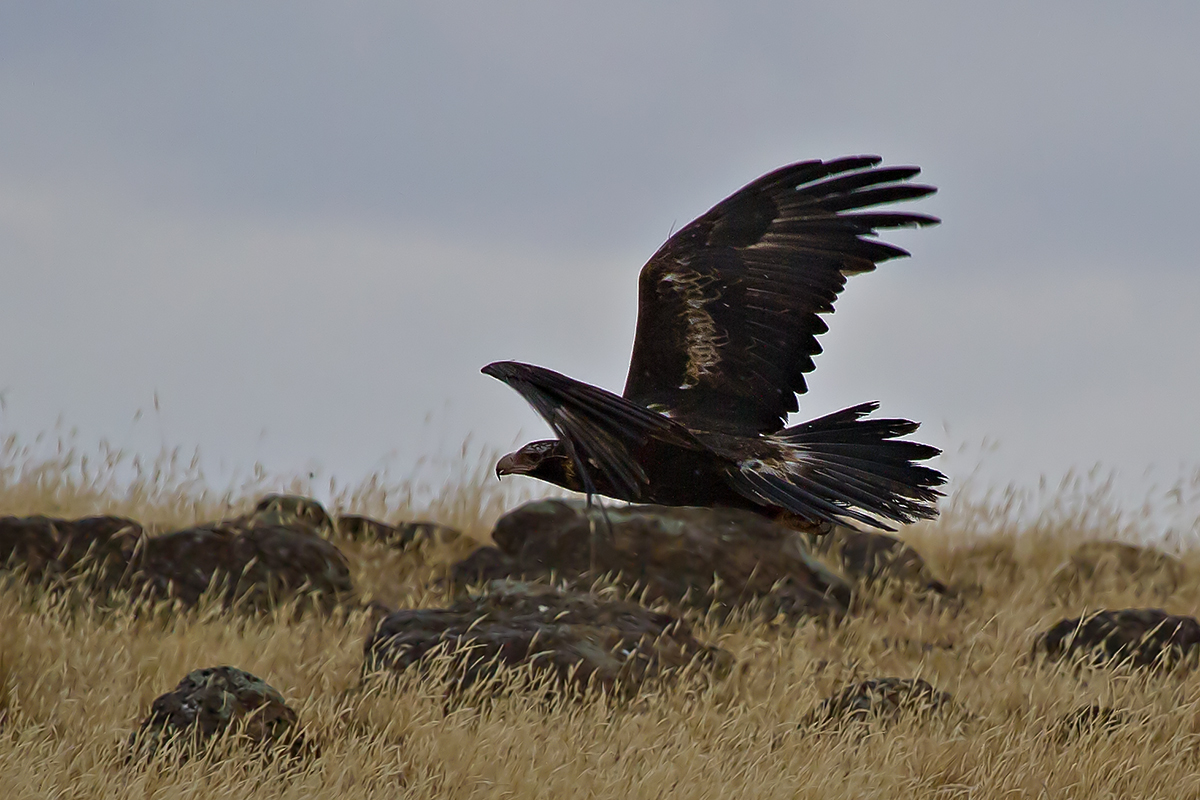 Mooloort Plains, Central Vic.